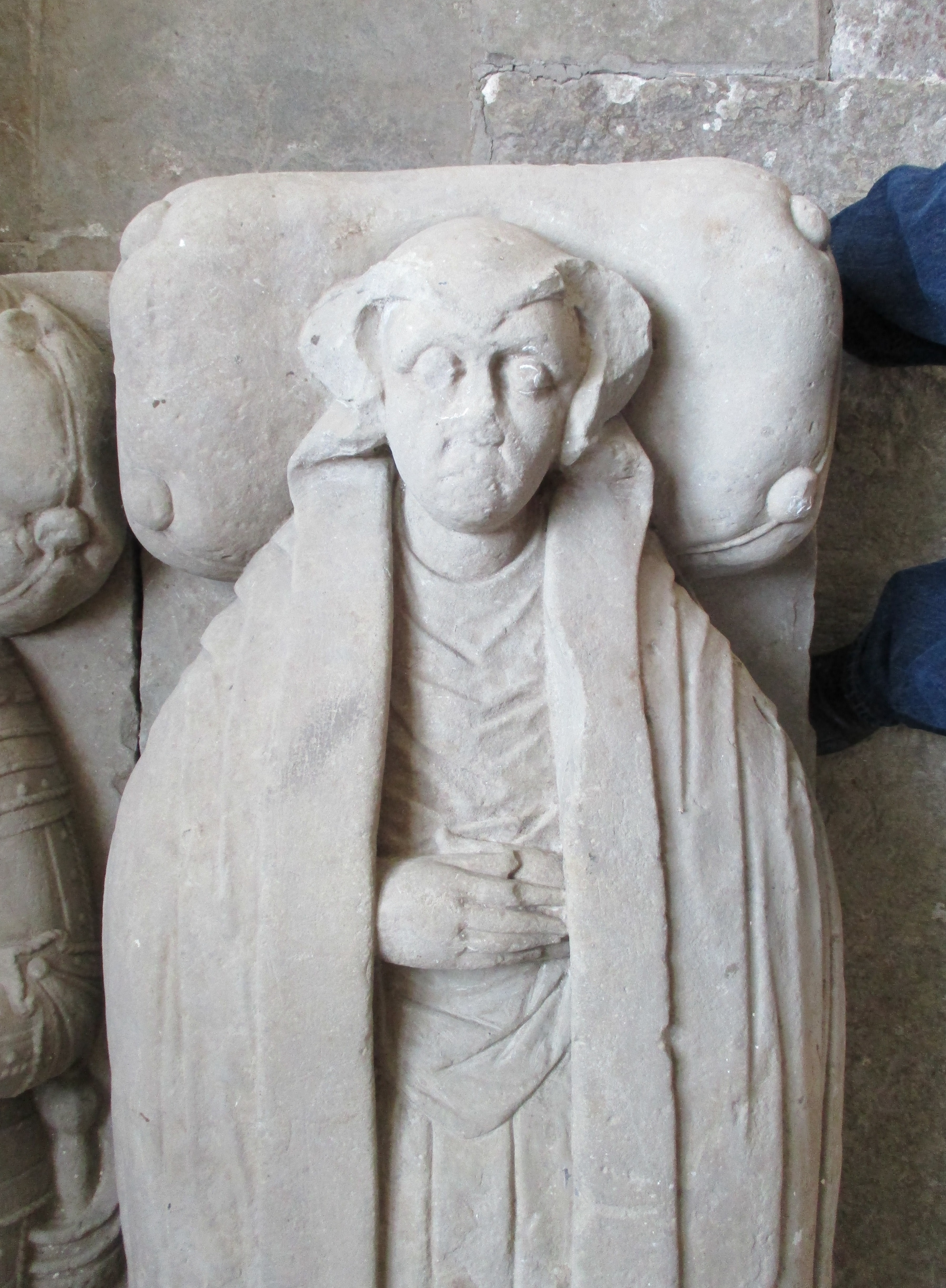 Margaret Cabiljau Slots